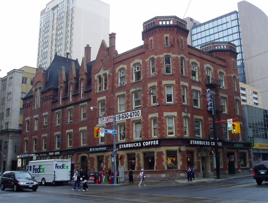 Taken by SimonP in April 2005 Independent Order of Odd Fellows Hall, Toronto. Located on the northwest corner of Yonge Street and College Street Built by Norman Dick and Frank Wickson Completed 1891